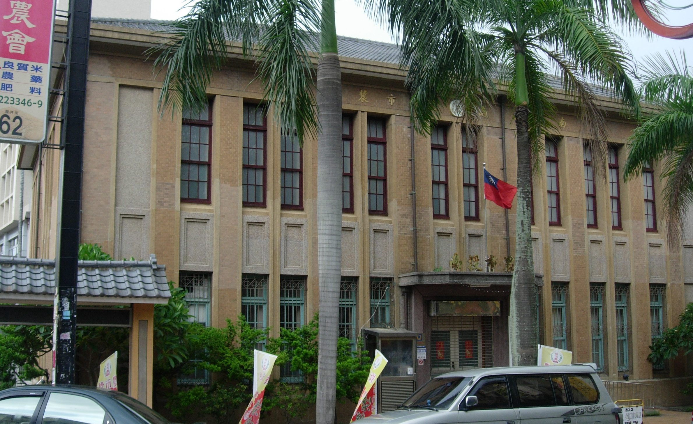 Nantou City Farmer's Association.中文（台灣）: 南投市農會。